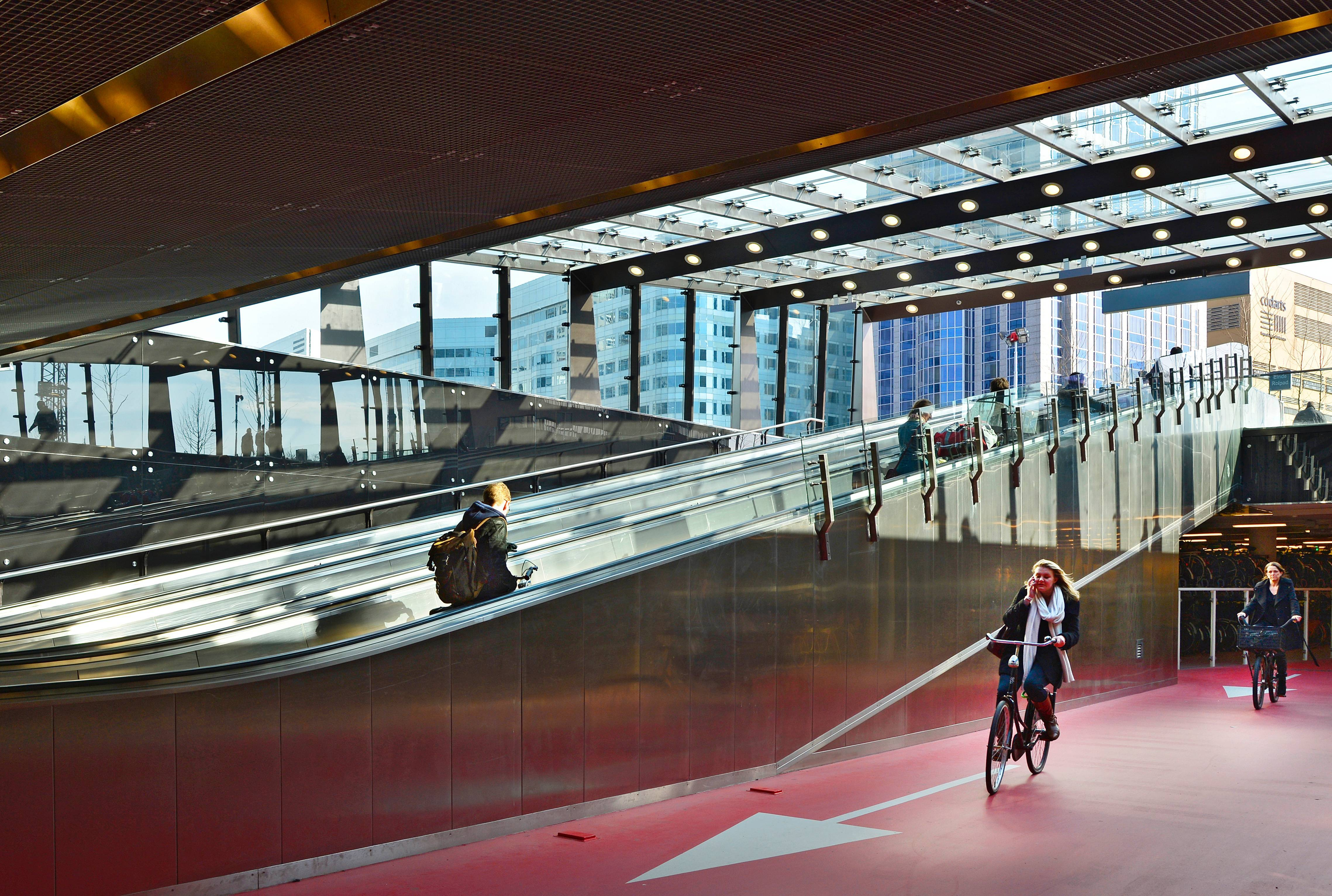 Bike entrance Rotterdam Central Station